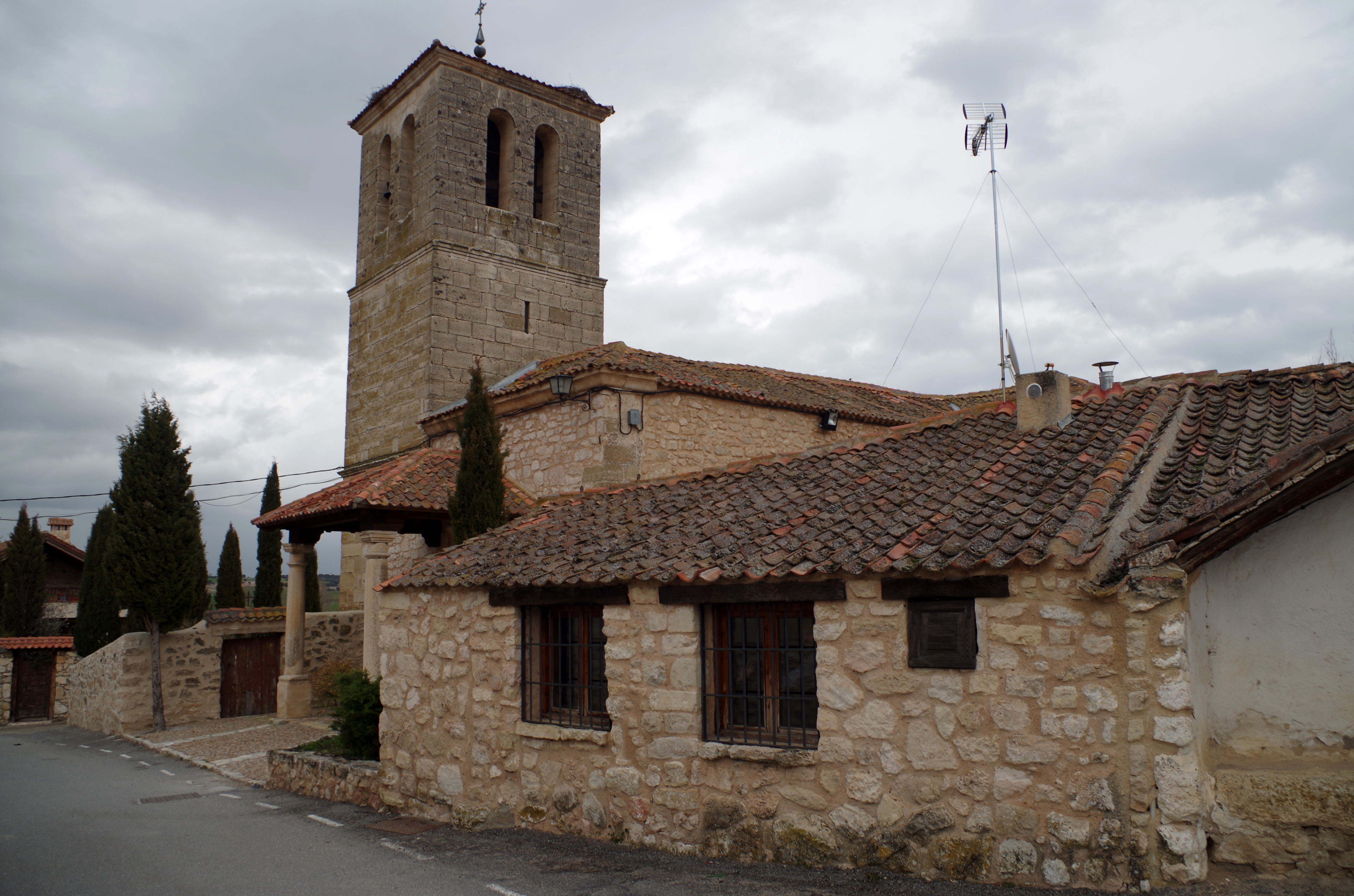 Church of Saint Eulalia of Mérida in Valdeprados (Segovia, Spain).